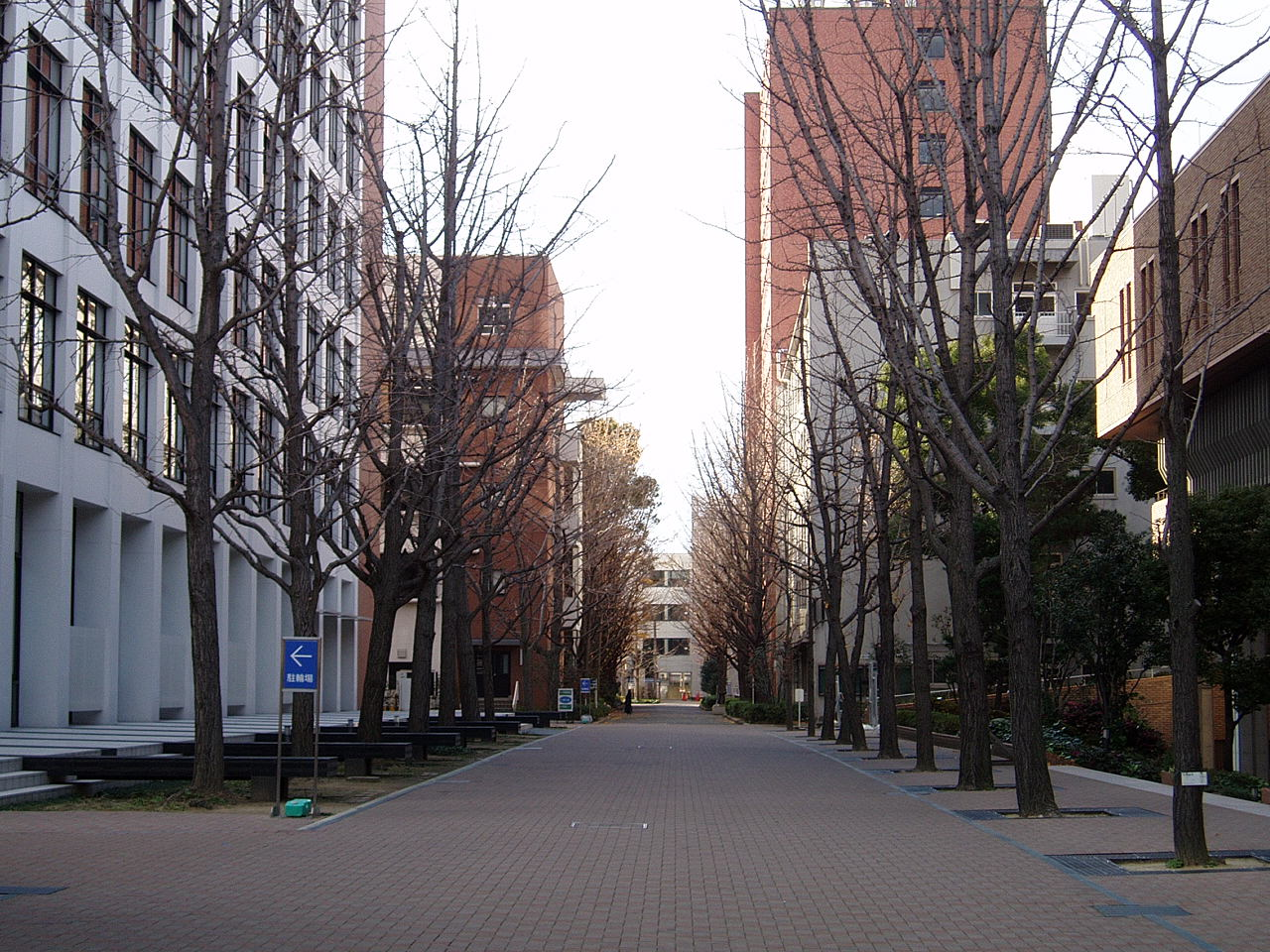 The main campus of Kinki University. Located in Higashiosaka, Osaka Prefecture, Japan.